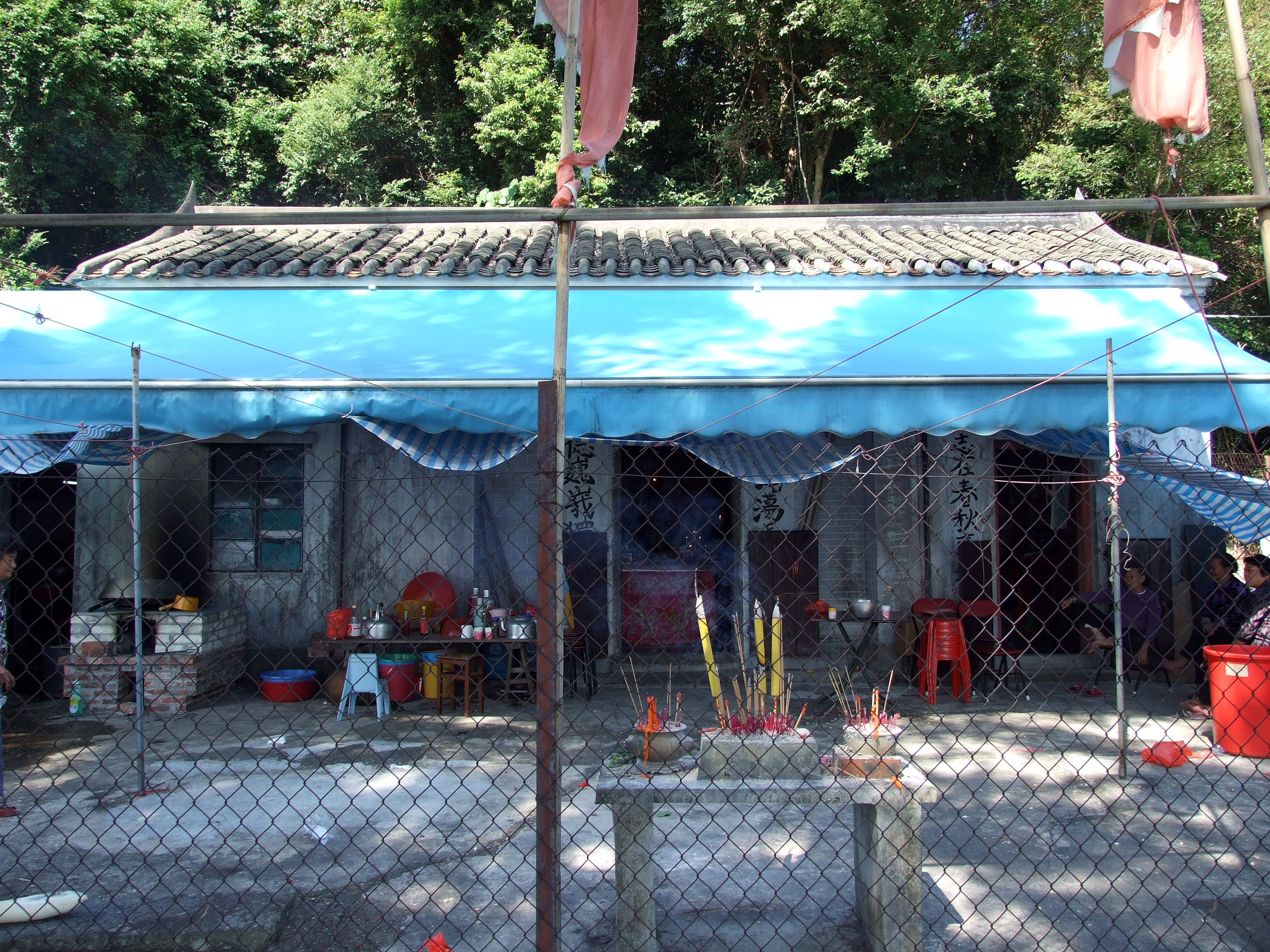 Tin Hau Temple in Wu Shek Kok, Sha Tau Kok, Hong Kong. The right part of the building houses a Hip Tin Temple.